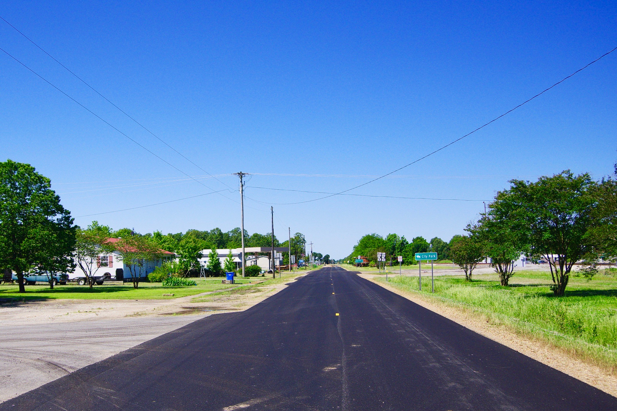 Looking west along Arkansas Highway 90 in O'Kean, Arkansas, United States.